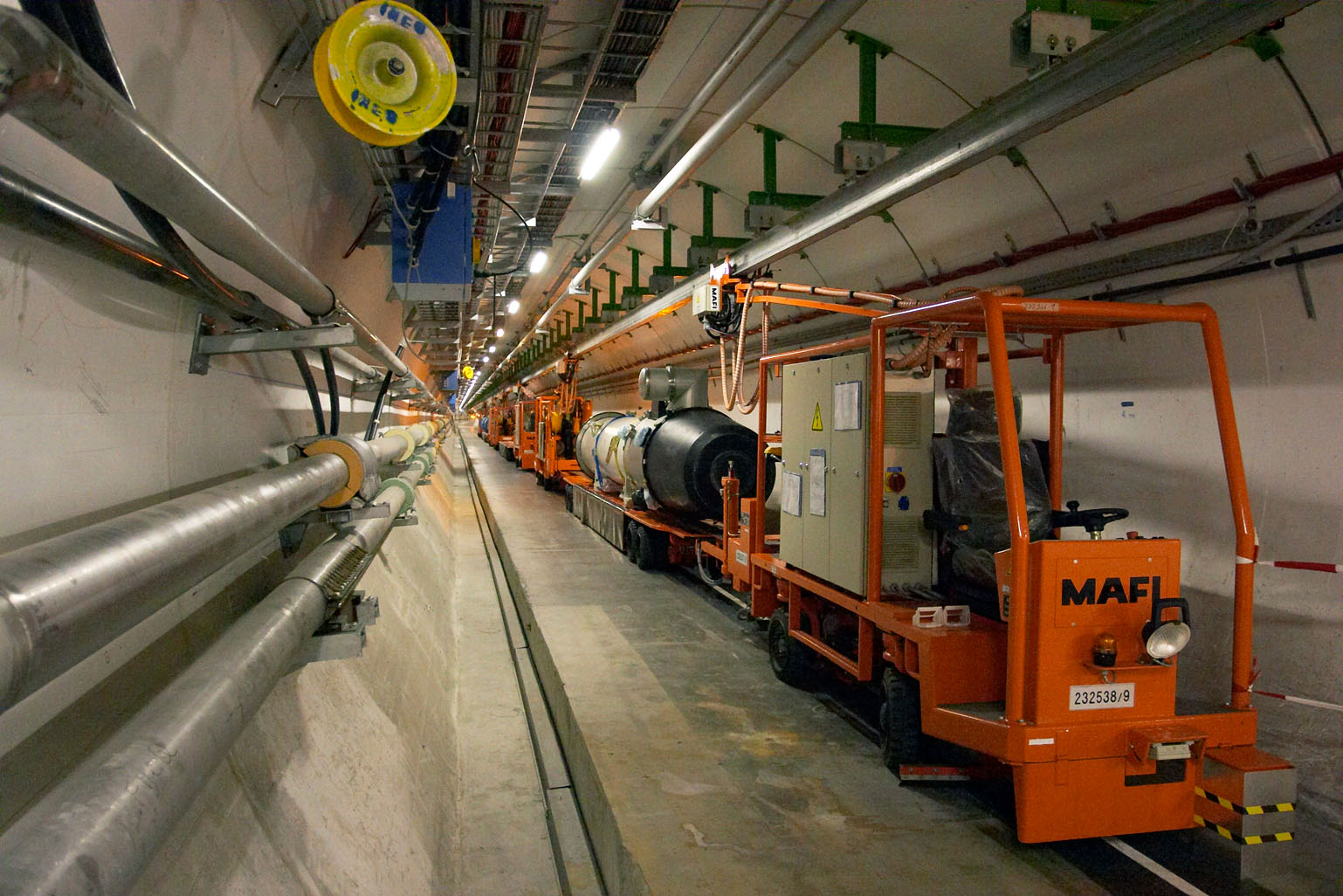 27 km long CERN LHC tunnel, located 100 metres under the ground close to Geneva. Huge superconducting electromagnets will be located here. On the right you see transport wagons.